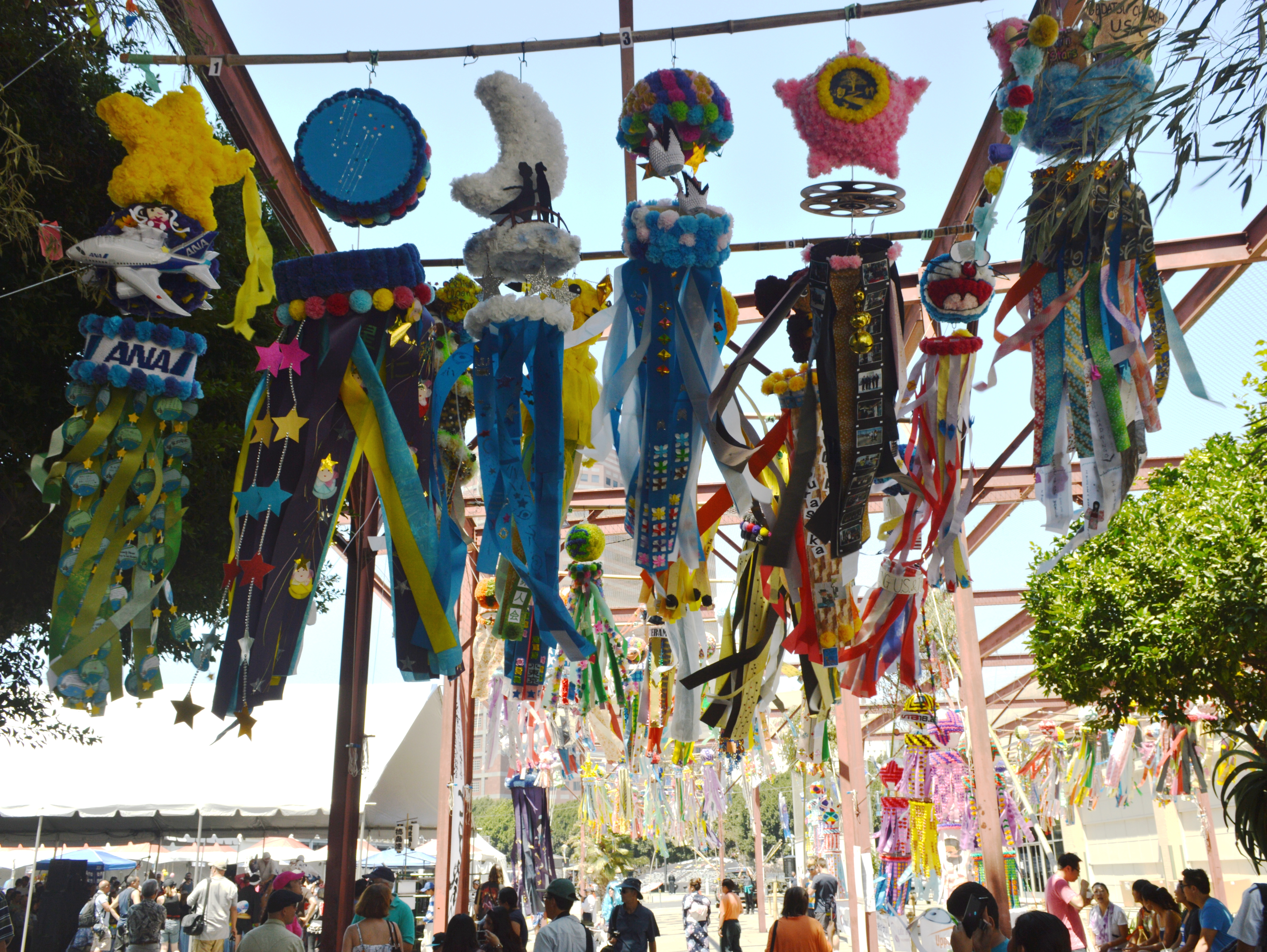 Kazari (paper ornament streamers) at the 6th Los Angeles Tanabata Festival (2014).